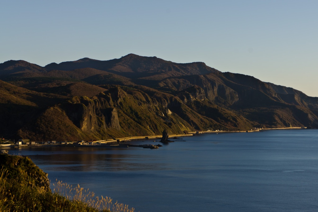 A view from Cape Kamui of the Shakotan Peninsula, looking south